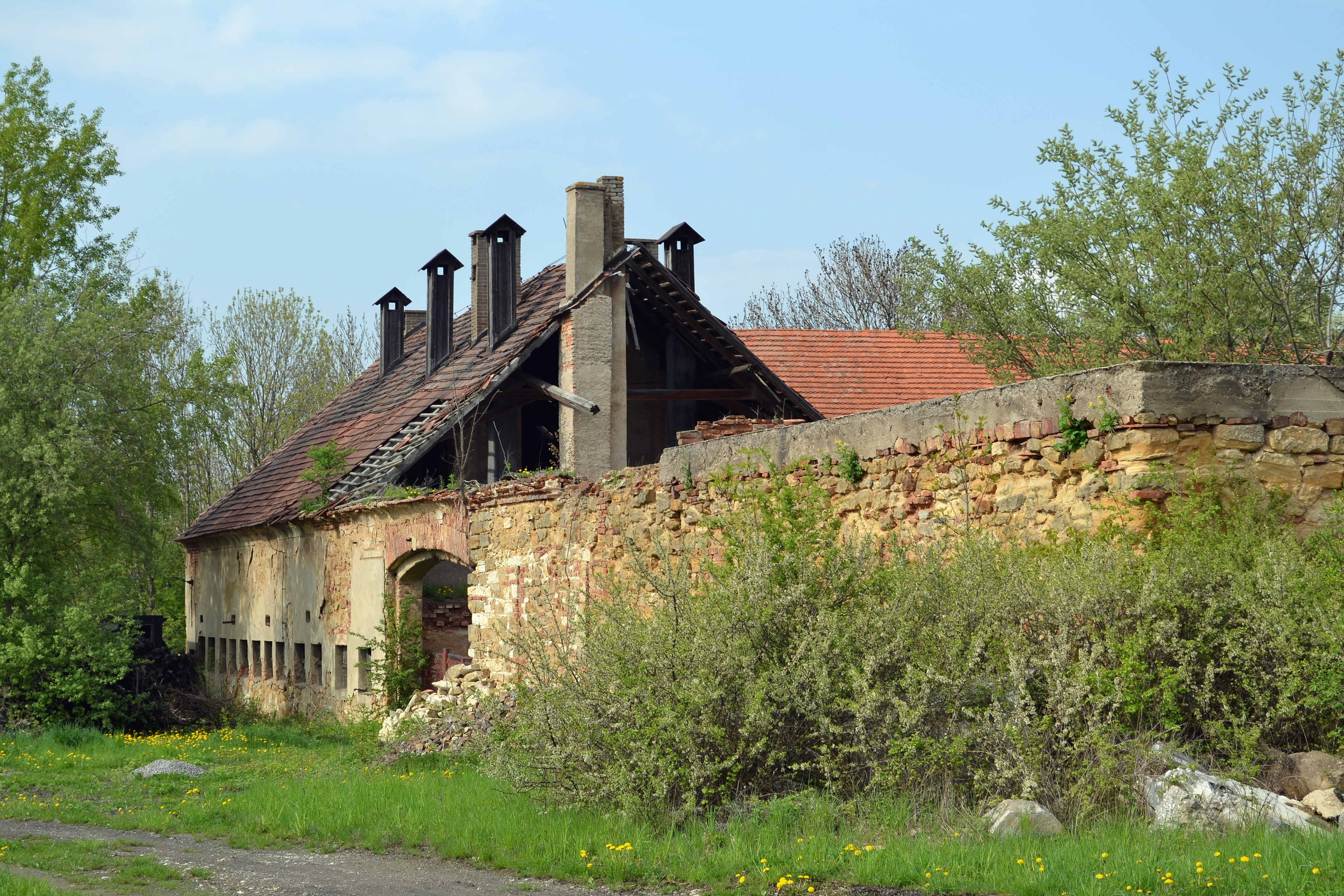 Cultural monument - Háje, Ke Konstruktivě 74, Stodůlky, Prague 13, Czech Republic.